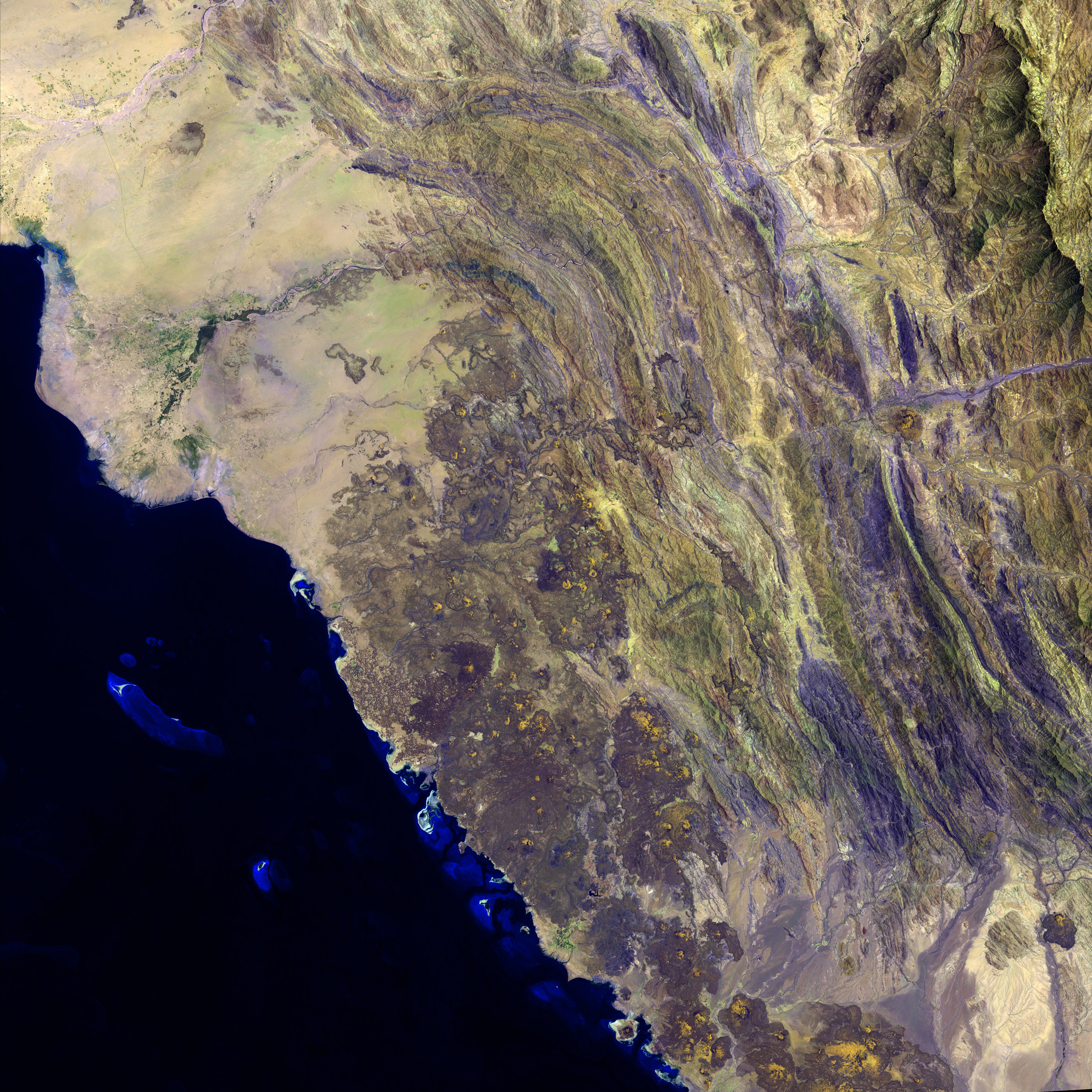 Dark-coloured volcanic cones sprout from an ancient lava field known as Harrat Al Birk along Saudi Arabia's Red Sea coastline. Many such lava fields dot the Arabian Peninsula and range in age from 2 million to 30 million years old. This image was acquired by Landsat 7’s Enhanced Thematic Mapper plus (ETM+) sensor.